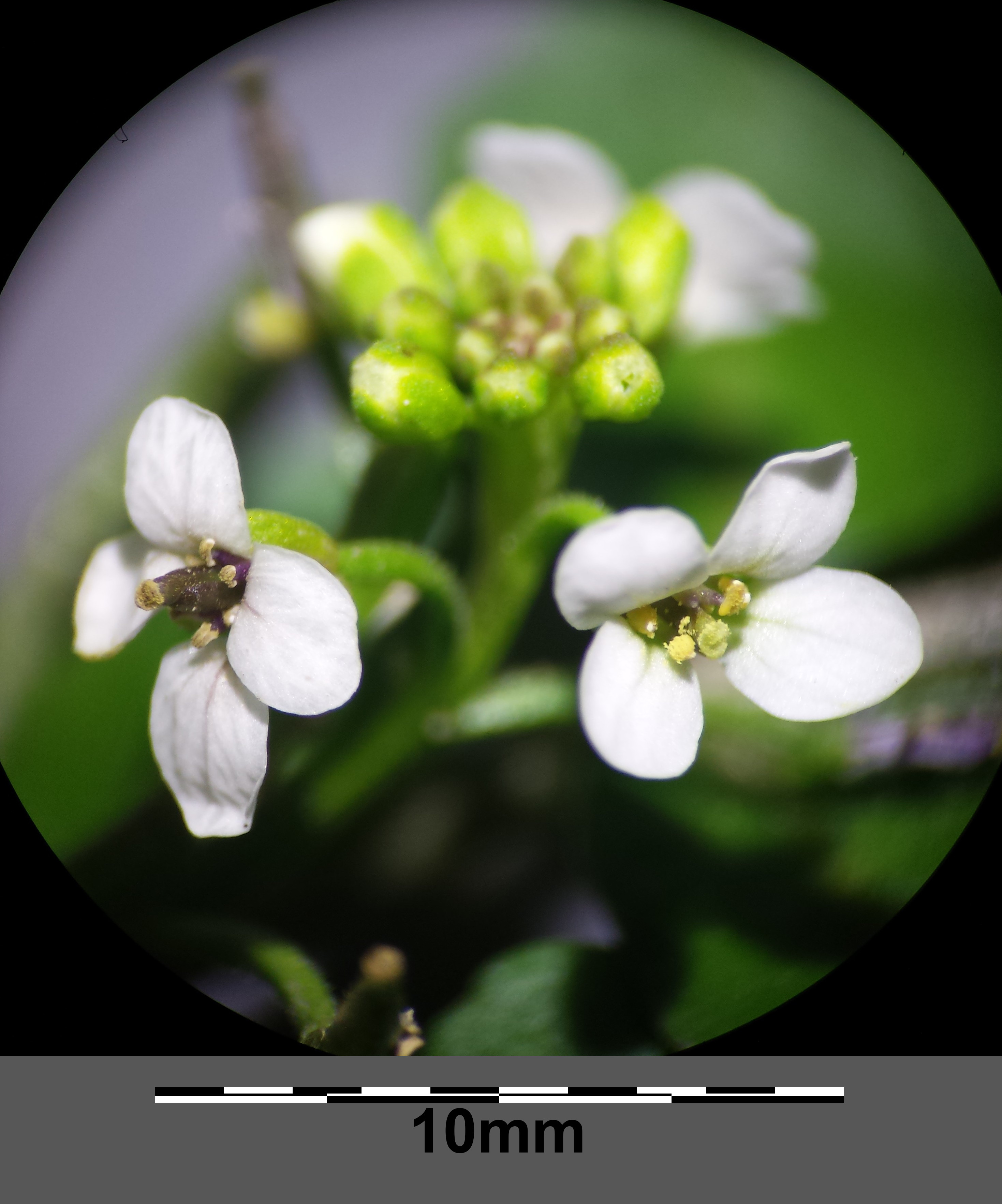 Inflorescence Taxonym: Nasturtium officinale ss Fischer et al. EfÖLS 2008 ISBN 978-3-85474-187-9 Location: Senningbach next to Hatzenbach, district Korneuburg, Lower Austria - 180 m a.s.l. Habitat: stream